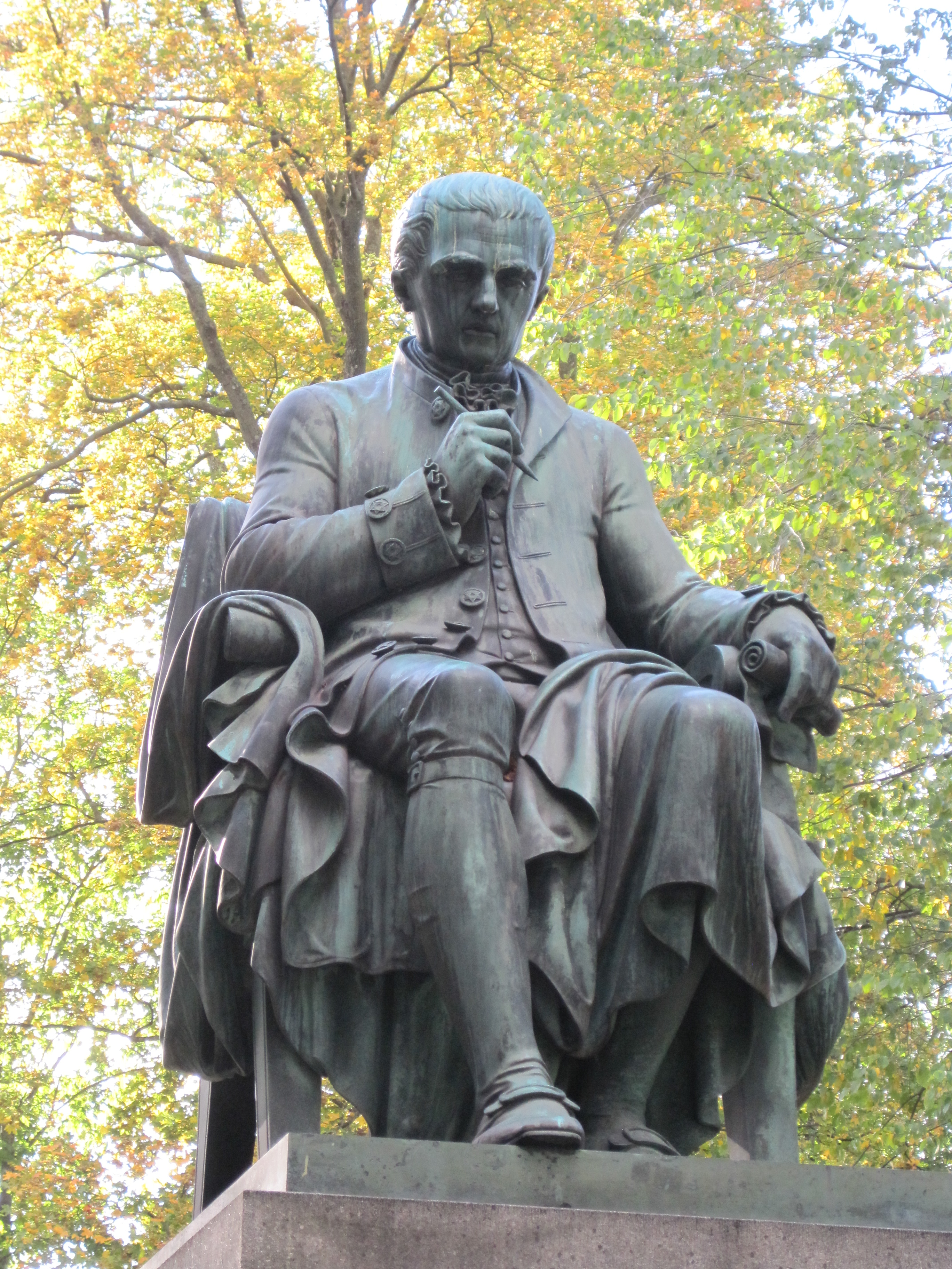 Statue of Henrik Gabriel Porthan, Turku, Finland check usage